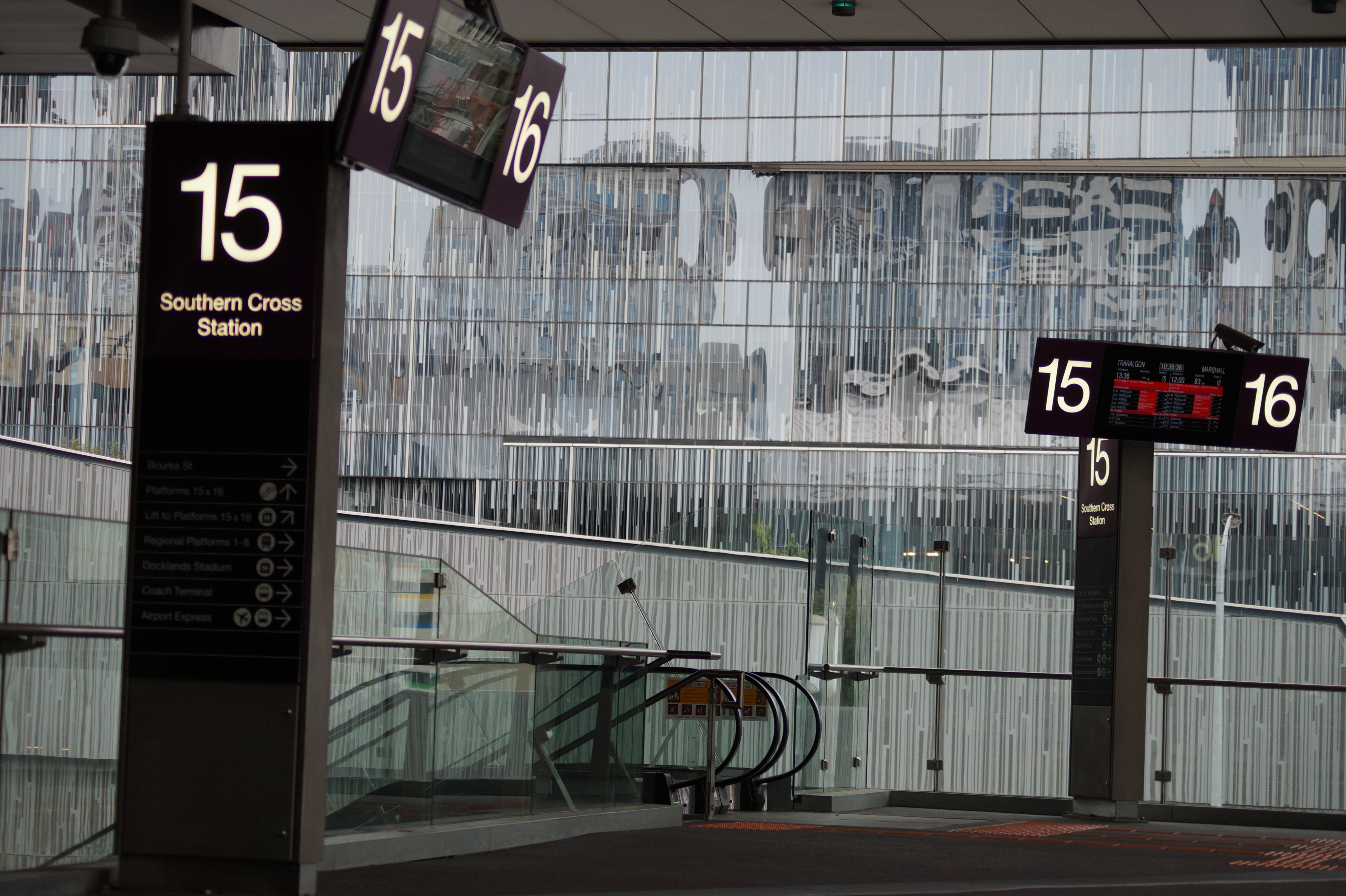 Southern Cross Station - Platform 15-16 Northern Concourse